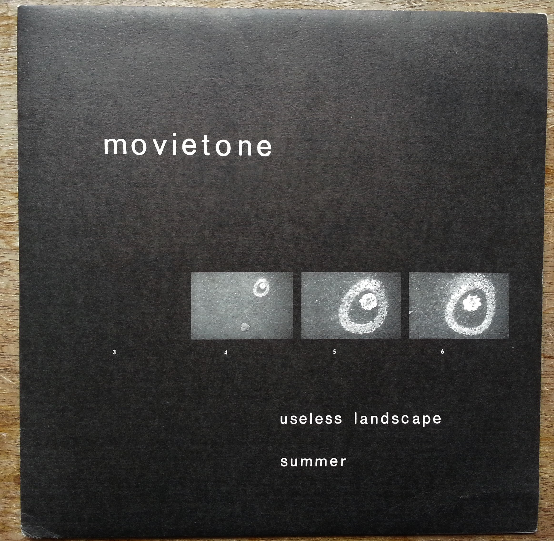 Movietone Useless Landscape/summer 7 inch record, Planet Records 1996